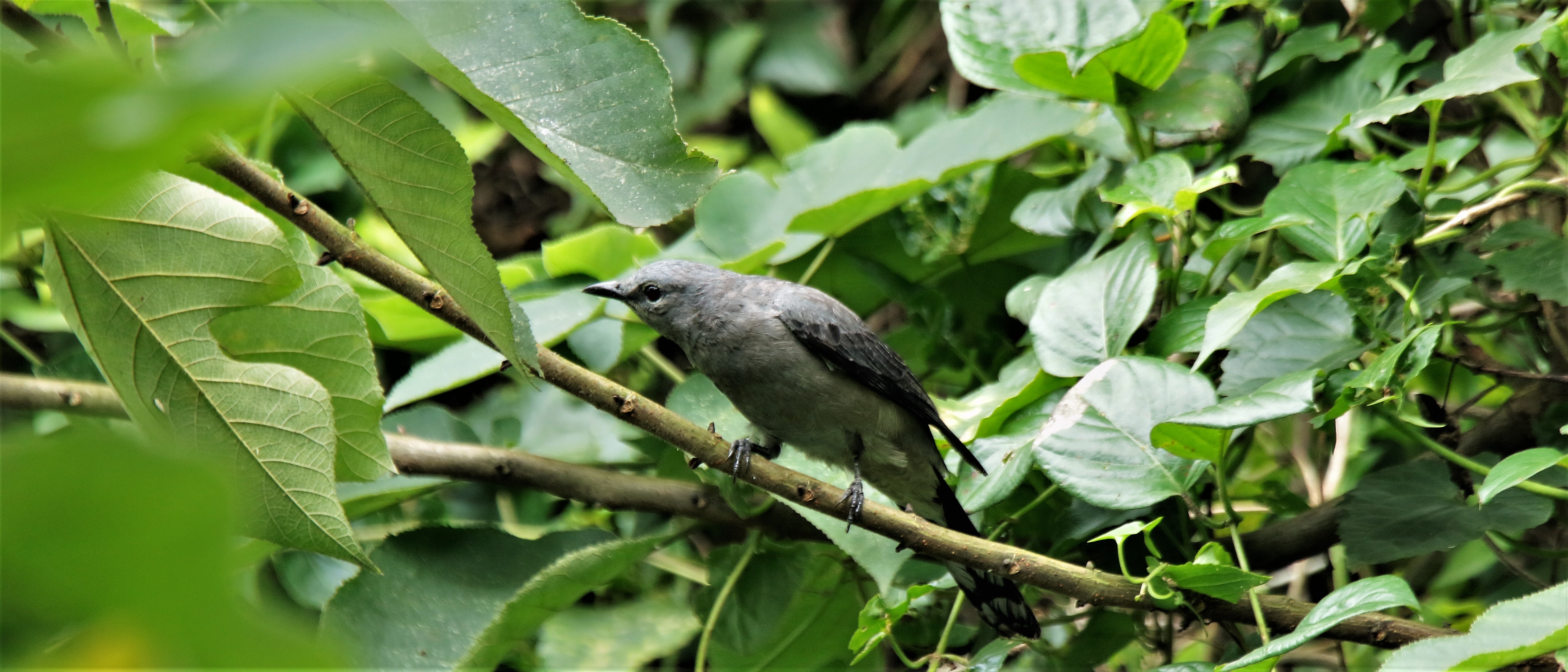 Black-winged Cuckooshrike